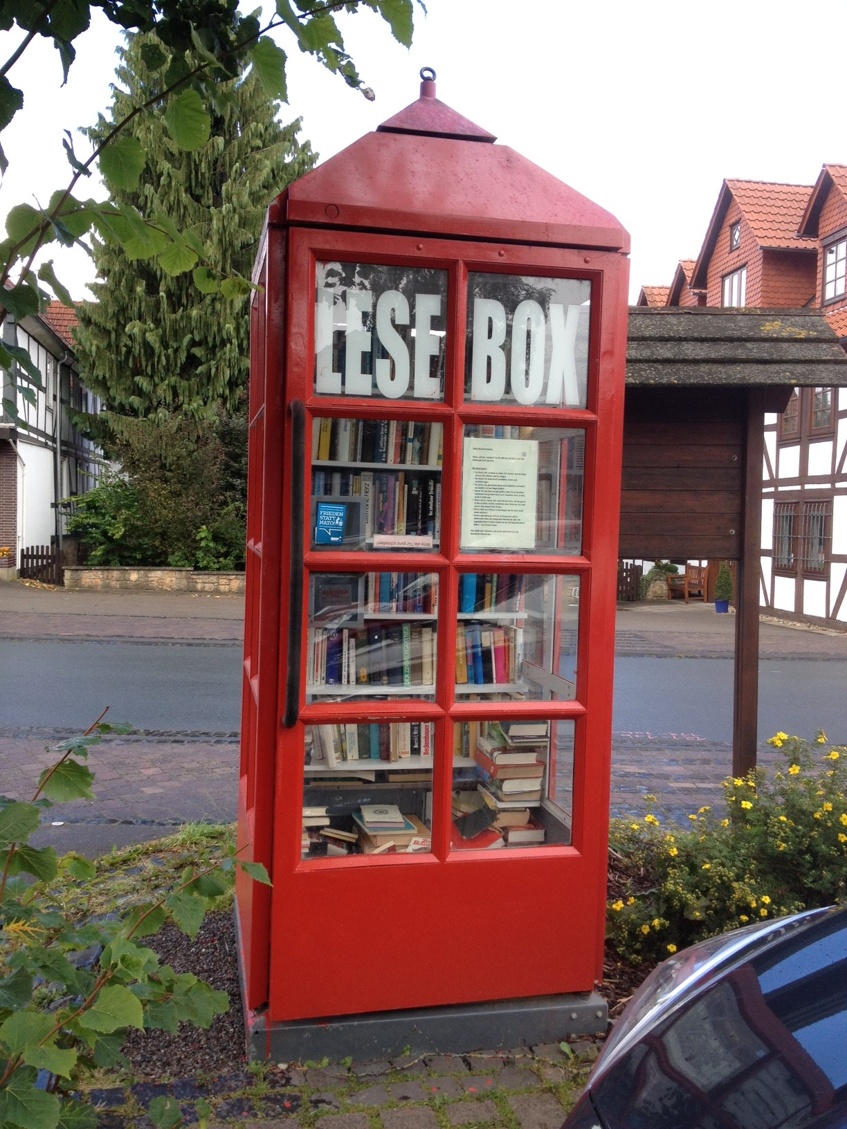 Lesebox in Adorf